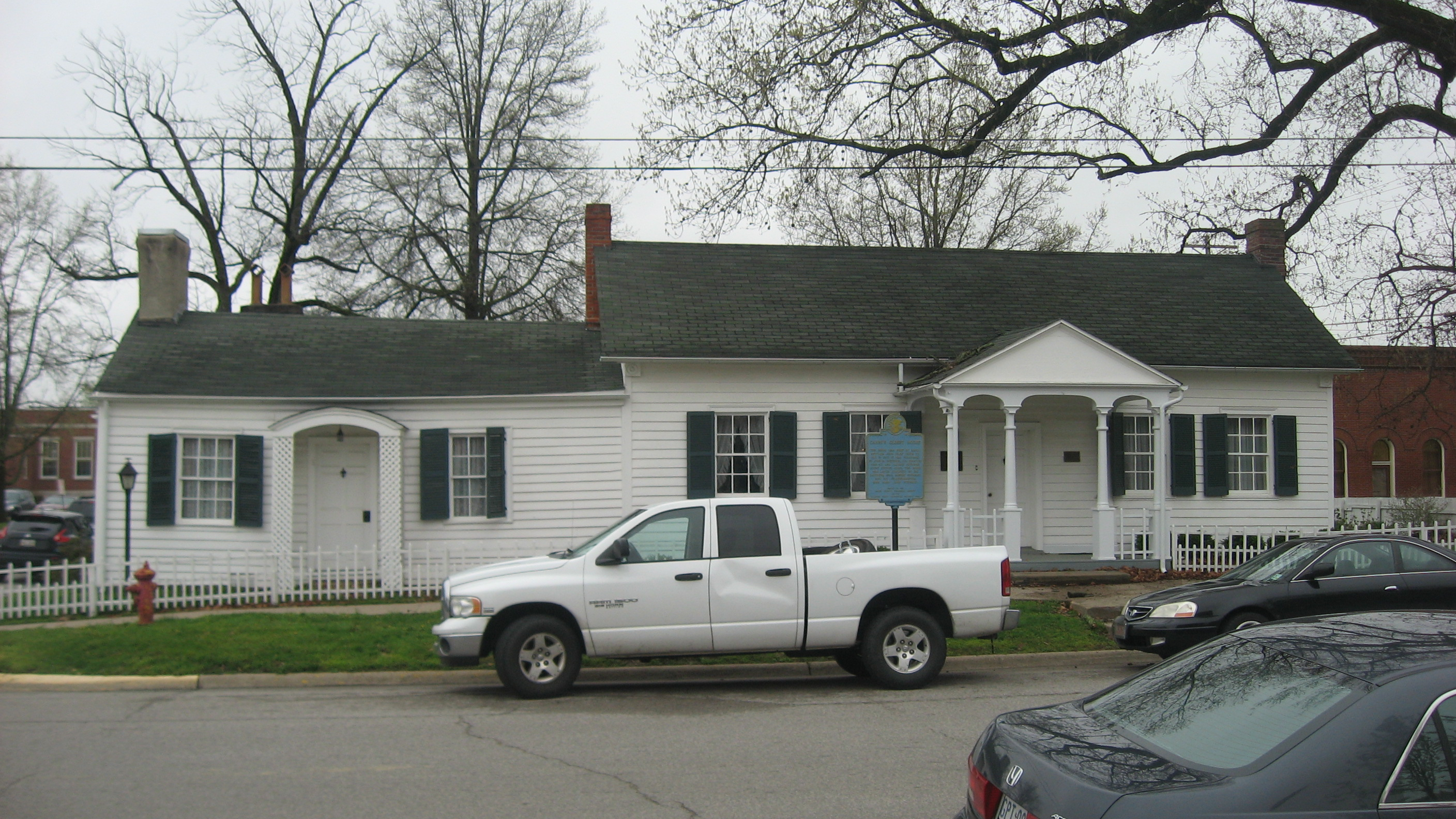 Front of the Robinson-Stewart House, located at 110 S. Main Cross Street in Carmi, Illinois, United States. Built in 1814 and the home of John McCracken Robinson, it is listed on the National Register of Historic Places.